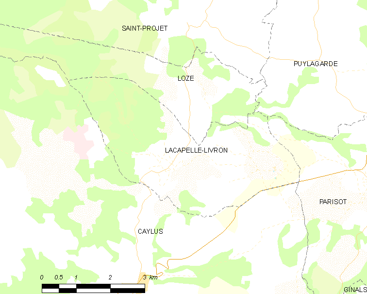 Map of French municipality Lacapelle-Livron